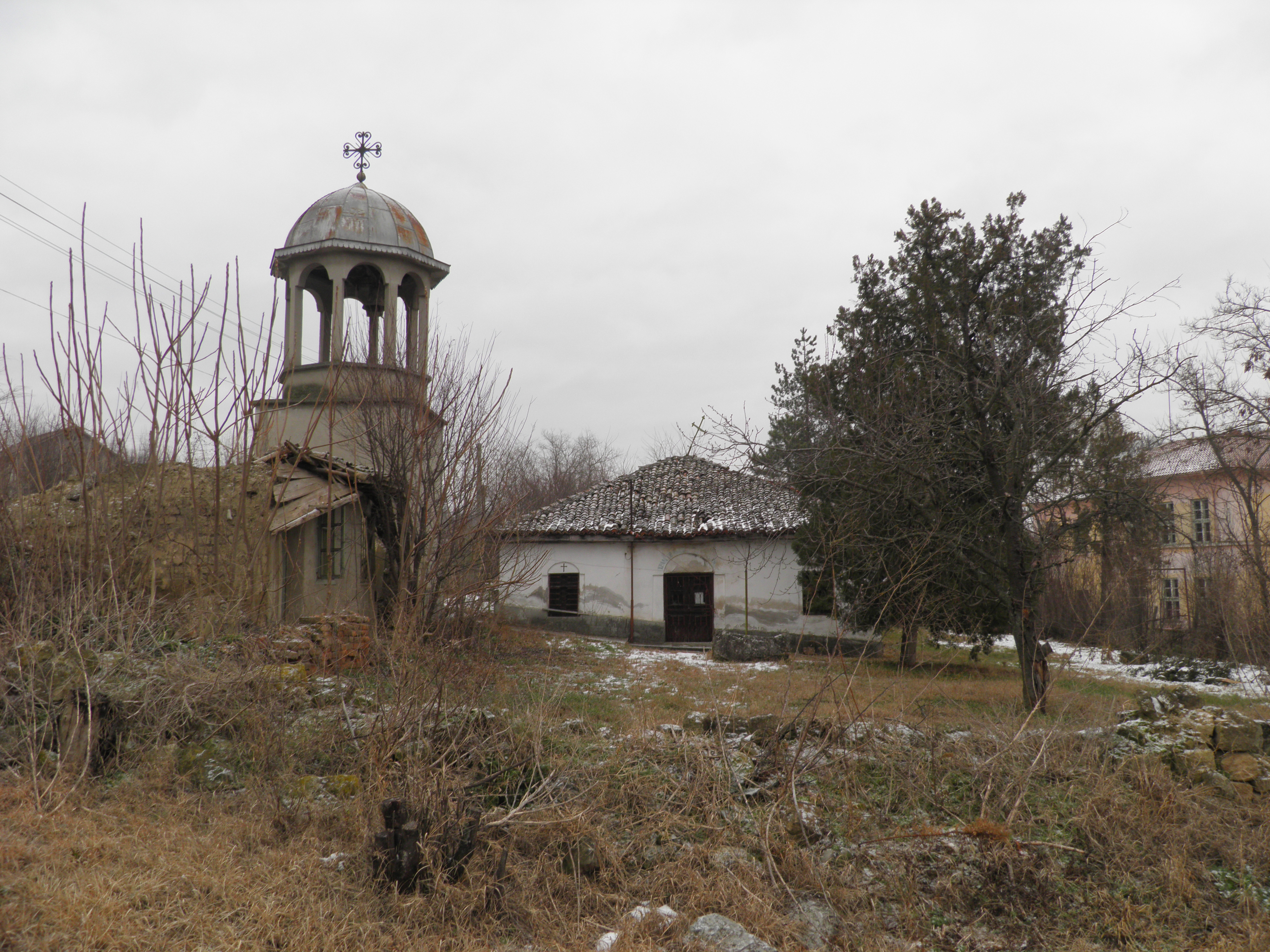 Orthodox Church "St. Archangel Michael ",Hadzhidimitrovo,Veliko Tarnovo Province